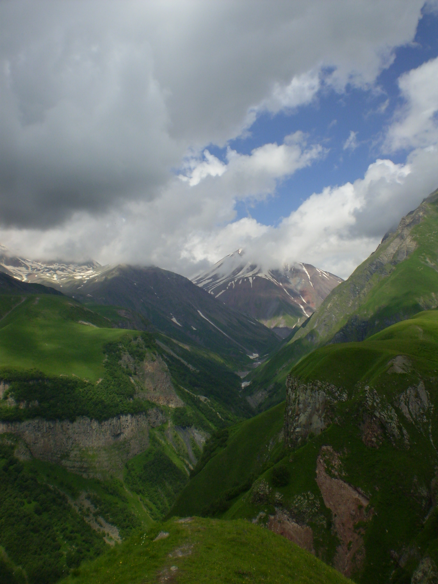 The Source of the Aragvi River above Gudauri